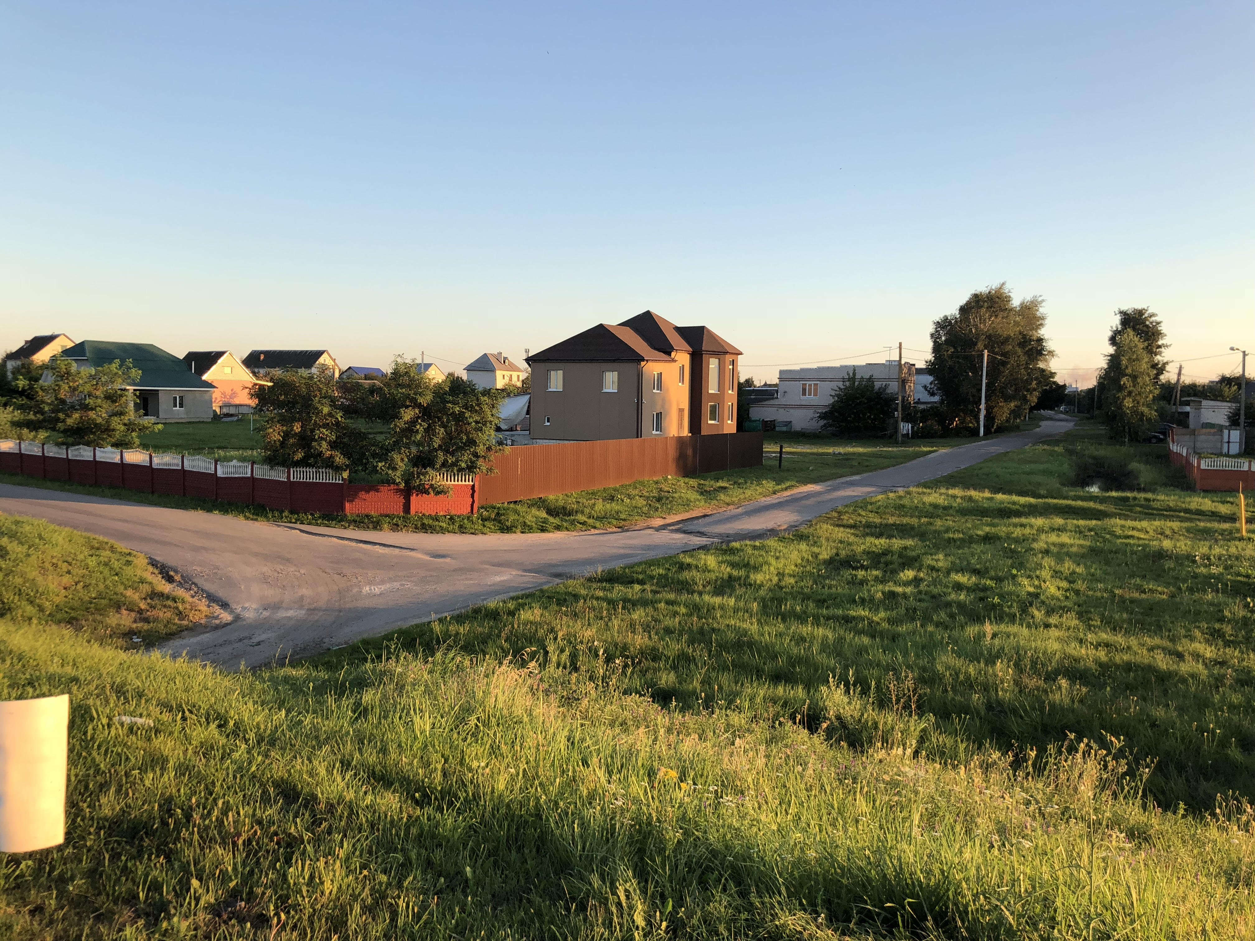 Krasnoe, Gomel Region, 2018 August